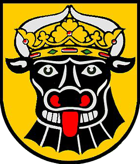 Coat of Arms of Rehna